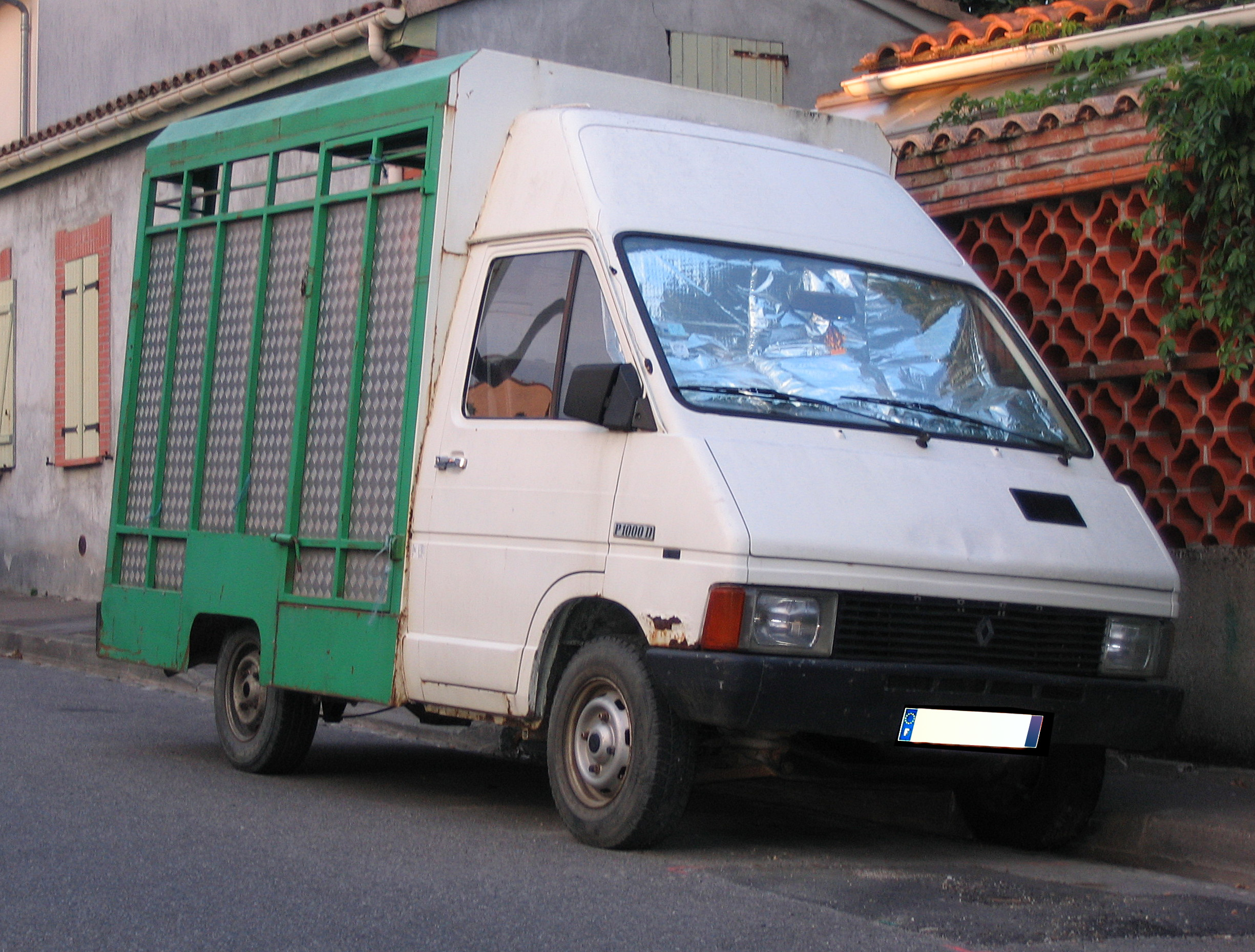 A (1981-1989) Rear-wheel drive Renault Trafic I phase 1.P 1000 D stands for "Propulsion (rear-wheel drive) / Payload: 1,000 kg (2,204.6 lb) / Diesel". The RWD option was discontinued with the 1998 model year.